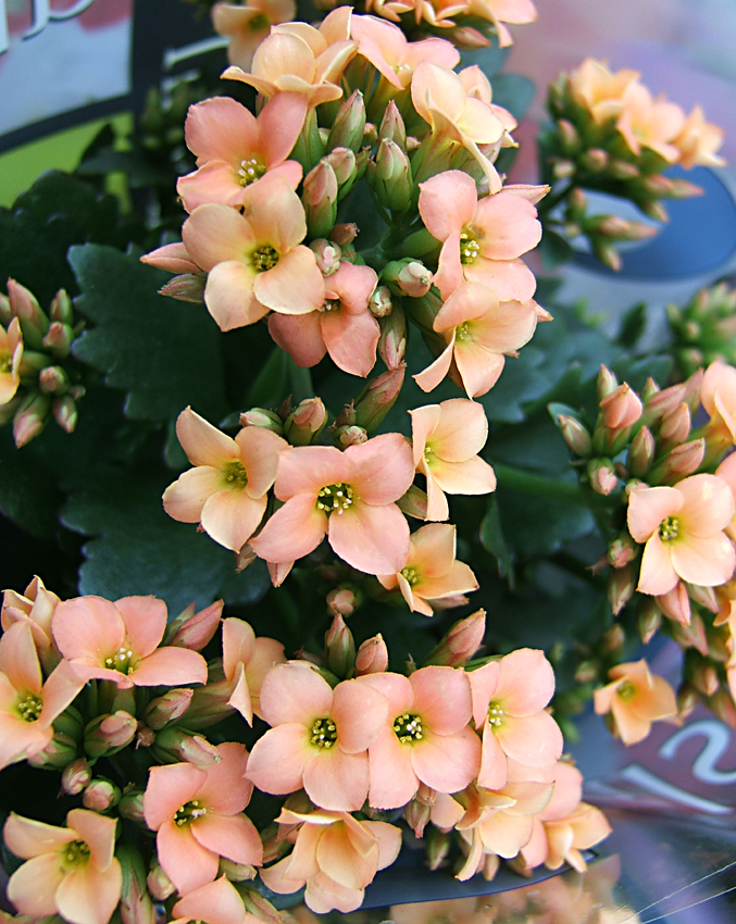 Flaming Katy